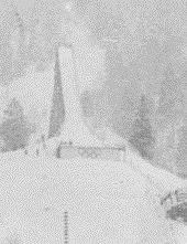 The Große Olympiaschanze, Garmisch-Partenkirchen, during the opening ceremony of the 1936 Winter Olympics.